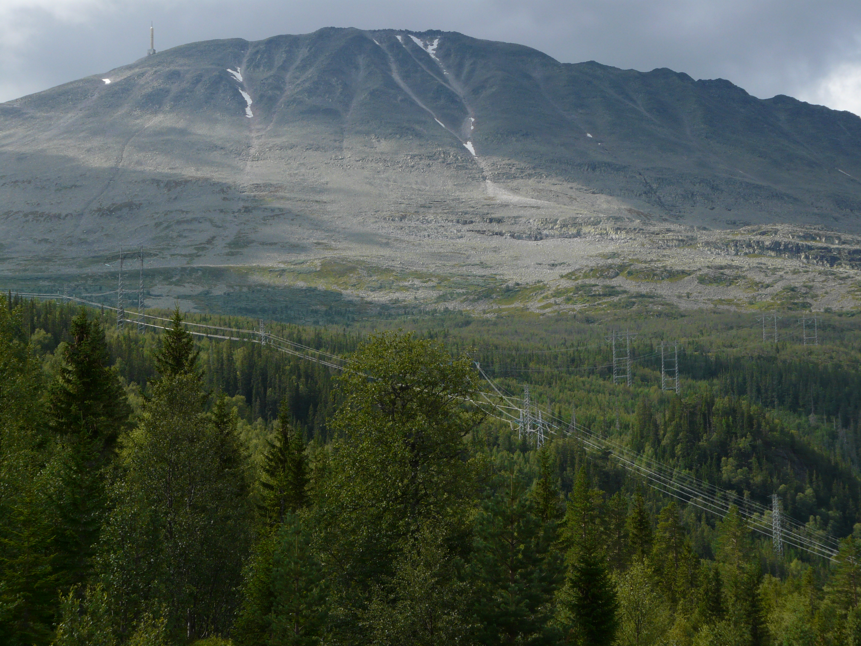 Gaustatoppen